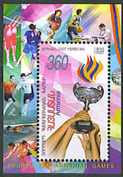 Stamp of Armenia